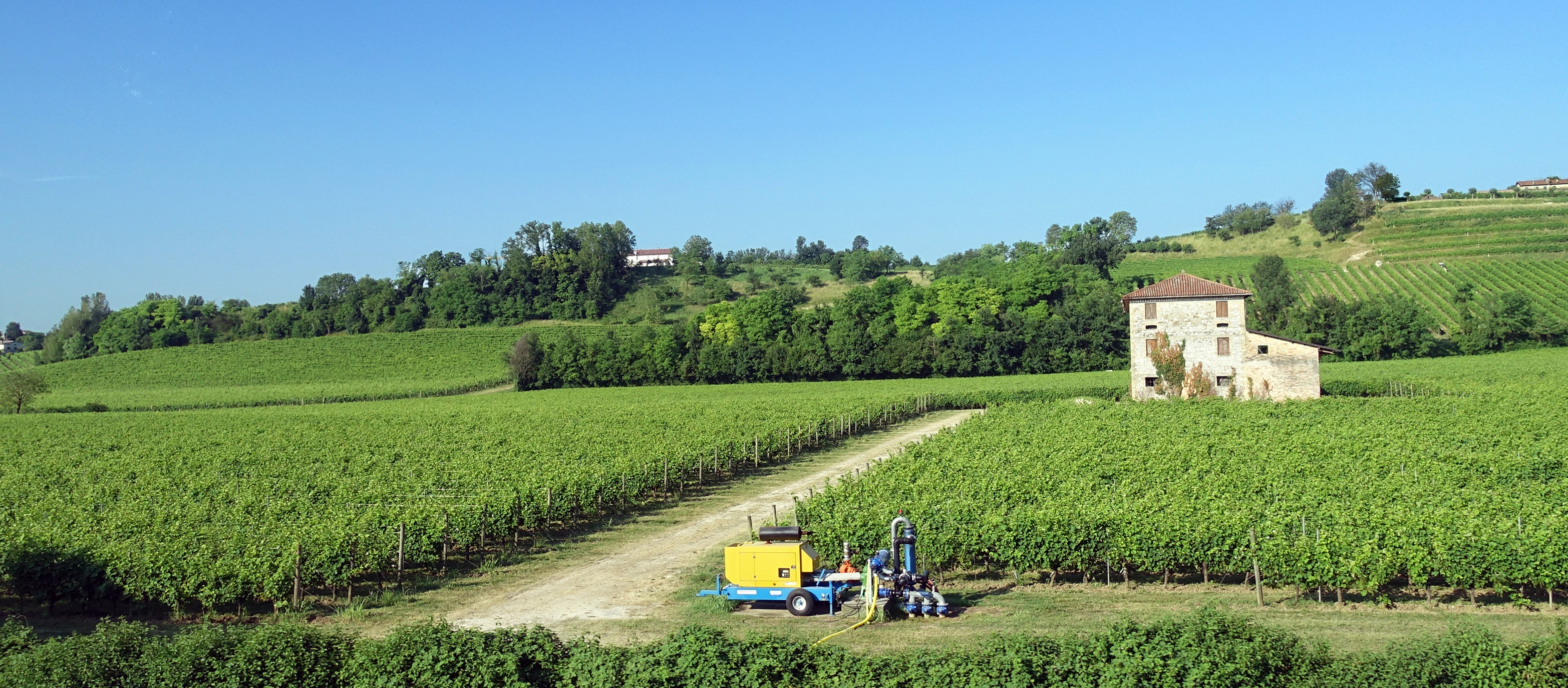 Field near Ogliano, Conegliano in Italy.